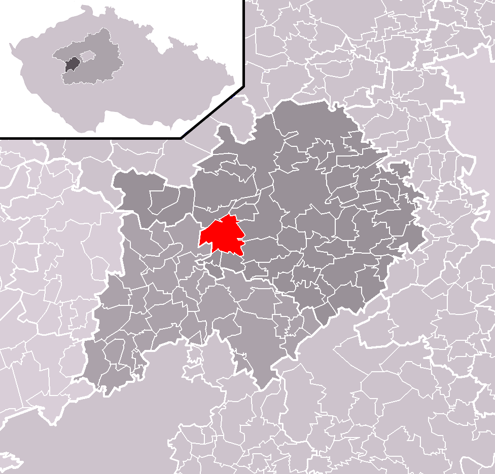 Location of Zdice town within Beroun District and administrative area of Beroun as a Municipality with Extended Competence.